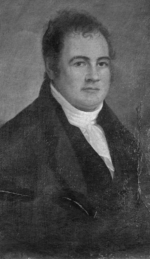 Solomon Southwick, Albany, New York newspaper publisher and political organizer.